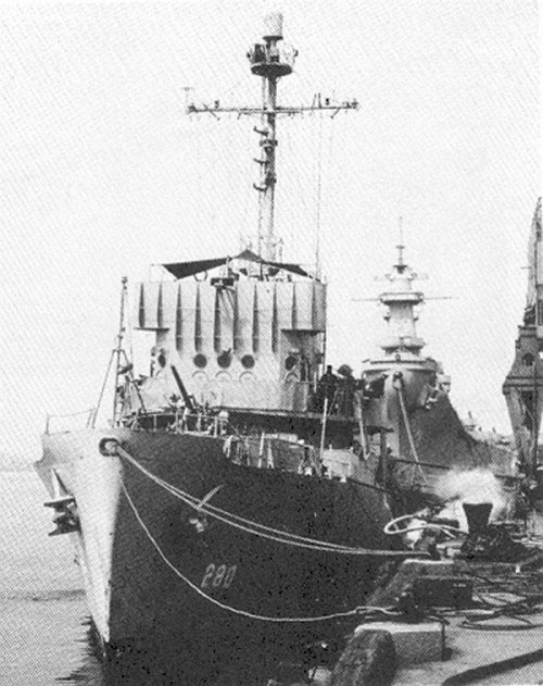 Moored forward of an unidentified Iowa Class battleship U.S. Navy photo